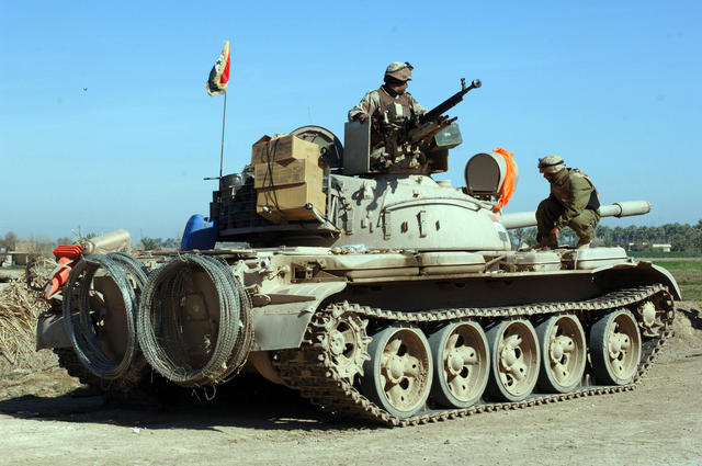 Iraqi soldiers pull security in Sadr Al Yusafiyah, Iraq, March 6, 2006. The soldiers are assigned to 1st Battalion, 9th Mechanized Infantry Brigade.